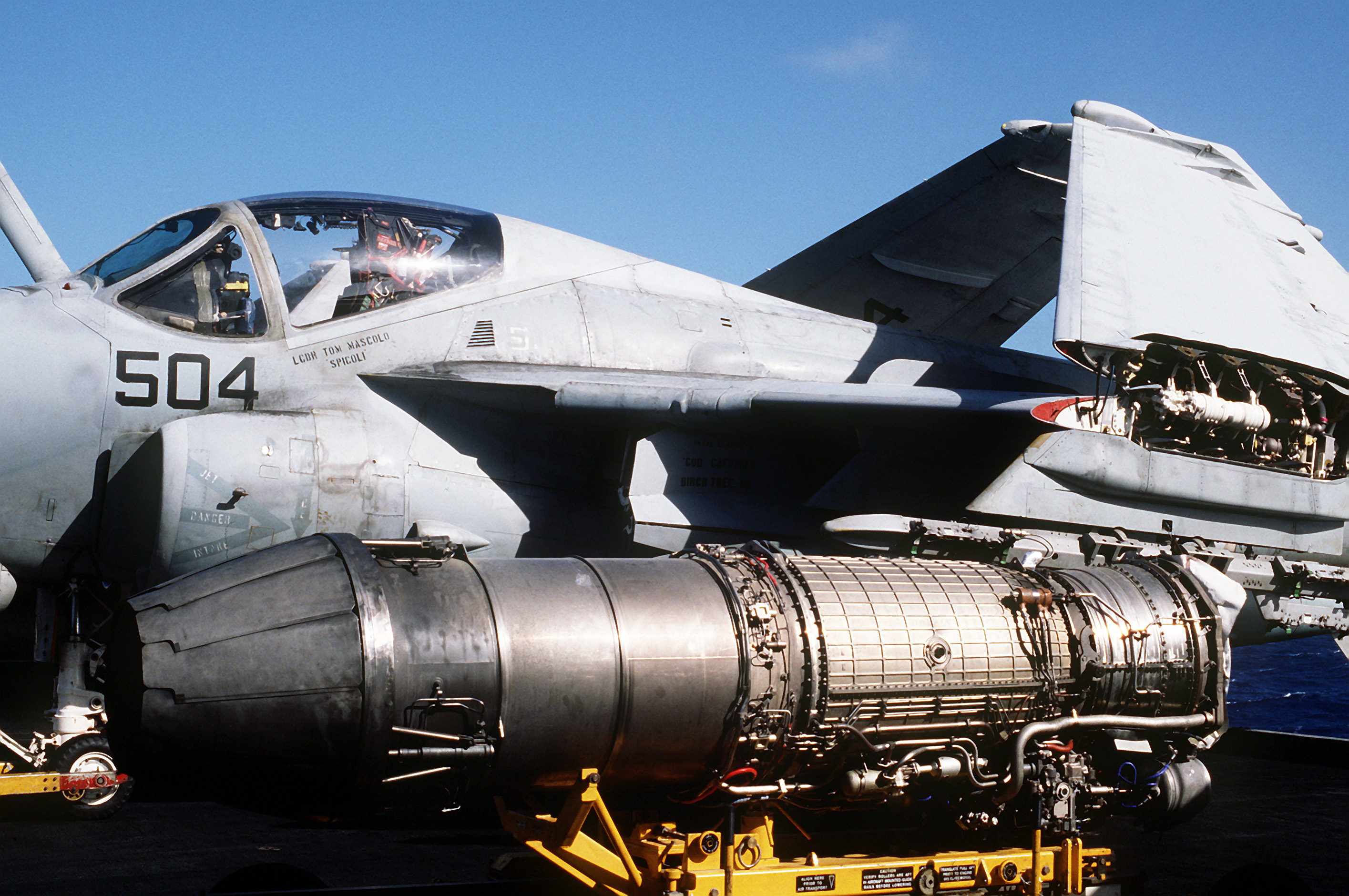 A General Electric F404 turbojet engine rest on a engine transportation cart on the flight deck of the aircraft carrier USS Abraham Lincoln (CVN-72) on 1 August 1993. The aircraft in the rear of the photo is a Grumman A-6E Intruder of Attack Squadron 95 (VA-95).